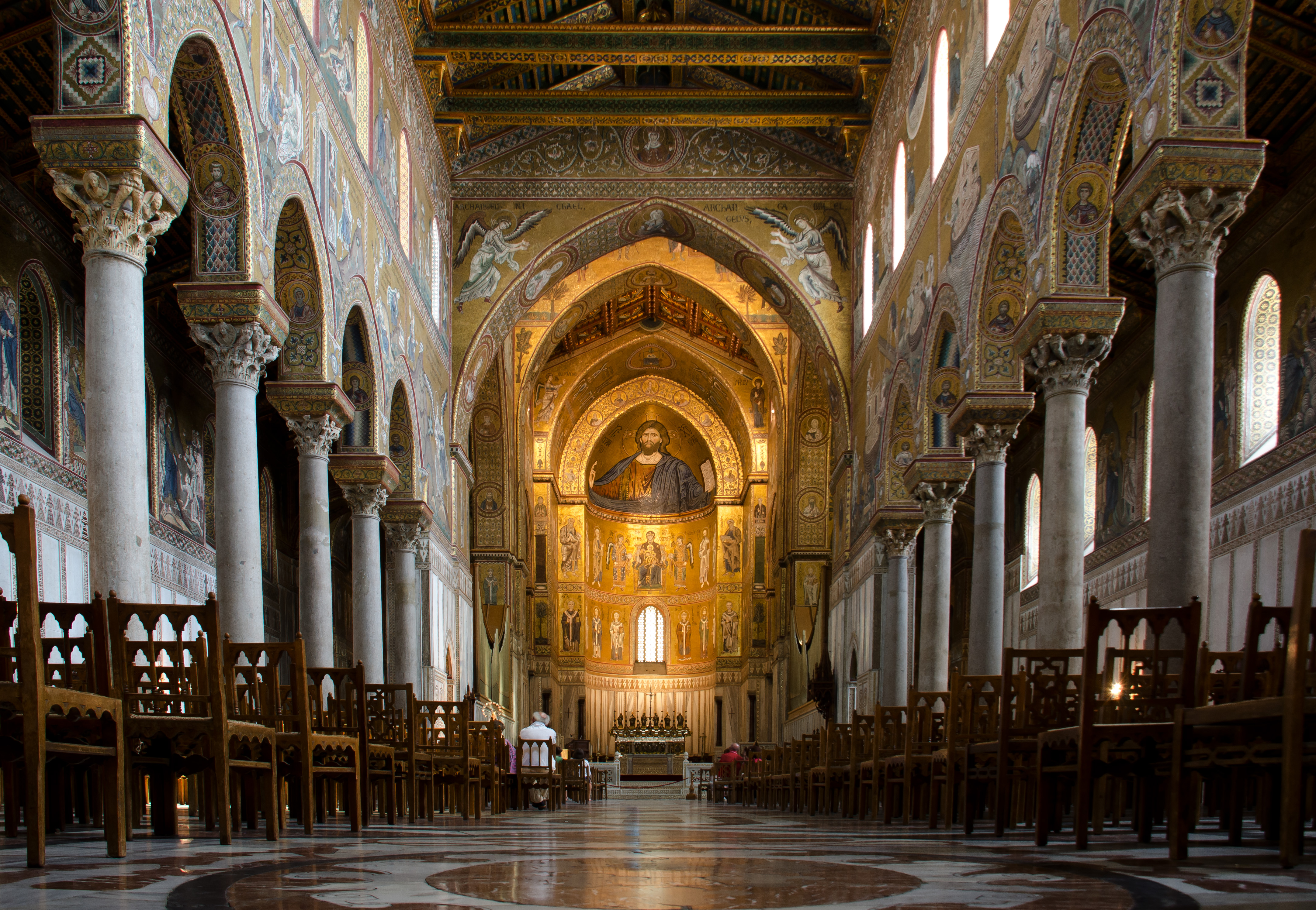 Santa Maria Nuova cathedral, Monreale, Sicily